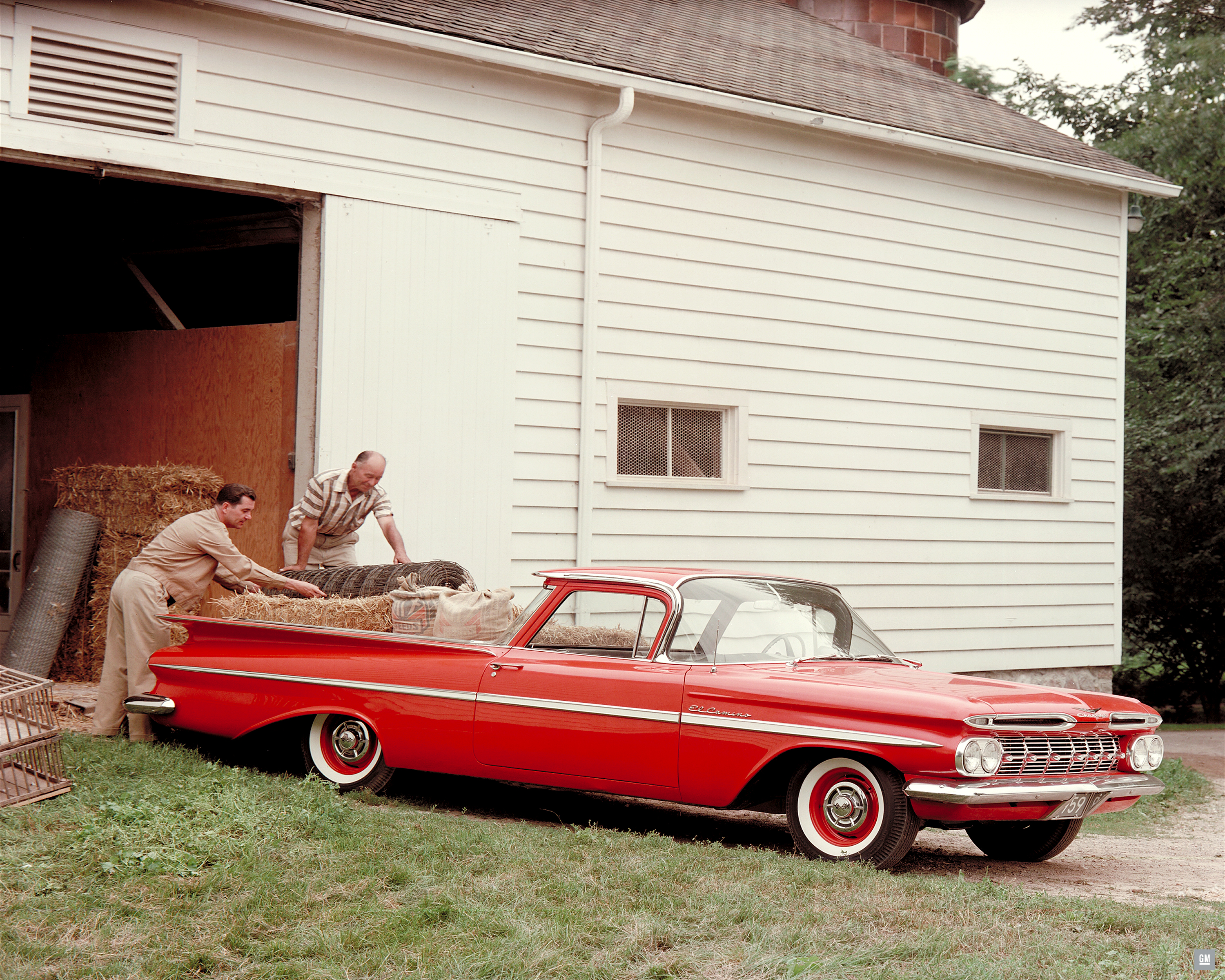 1958 Chevrolet El Camino